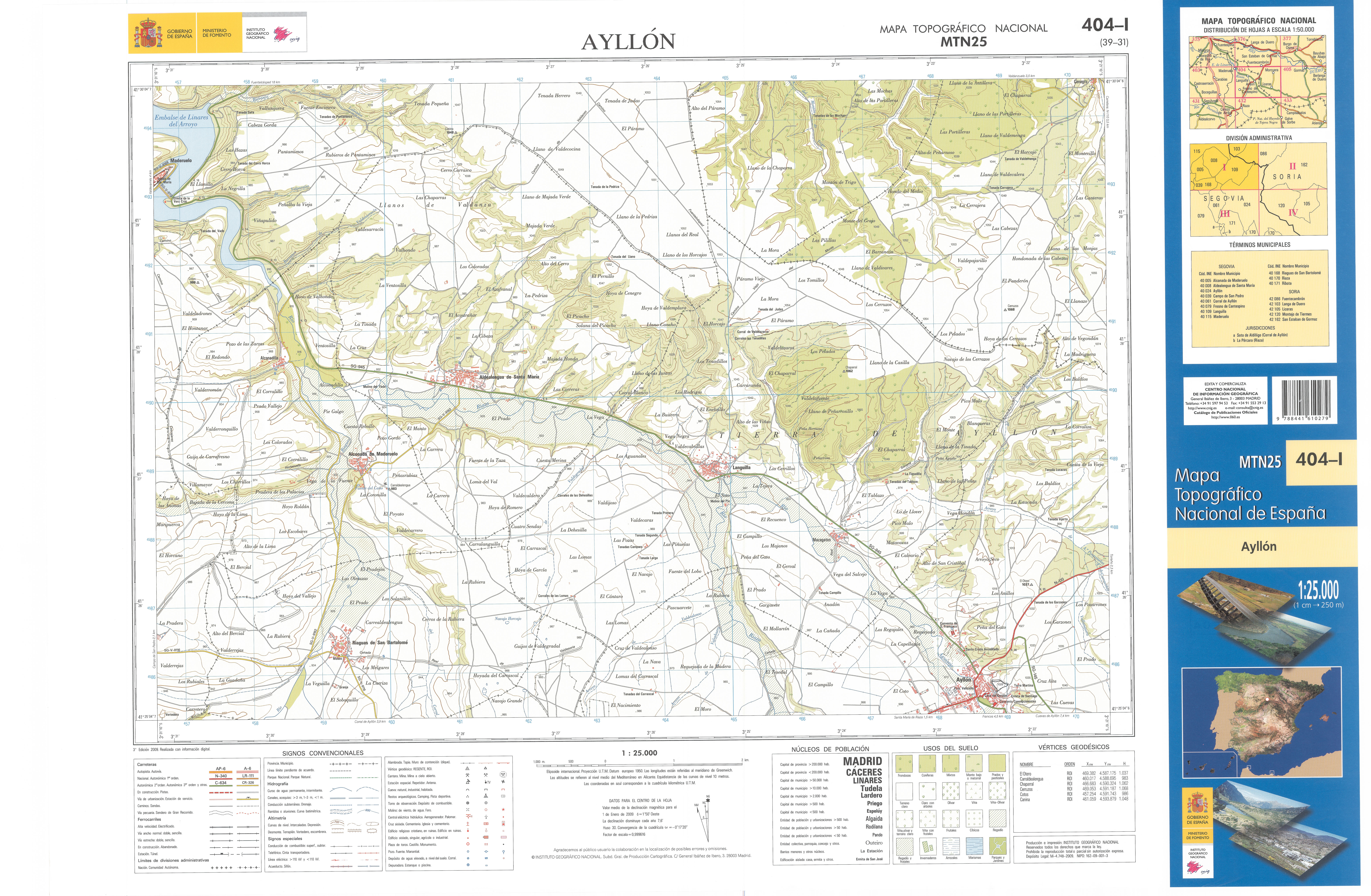 Fragment 0404c1 of the National Topographic Map of Spain in 2009 at a scale of 1:25000 printed and scanned with a resolution of 250 ppi. It shows Ayllon.